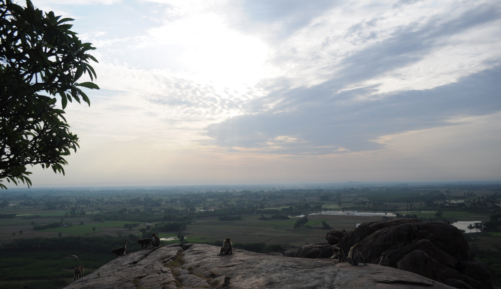 Local monkey population on Tirumalai, a Jain sacred mountain near Polur, Tamil Nadu, India.